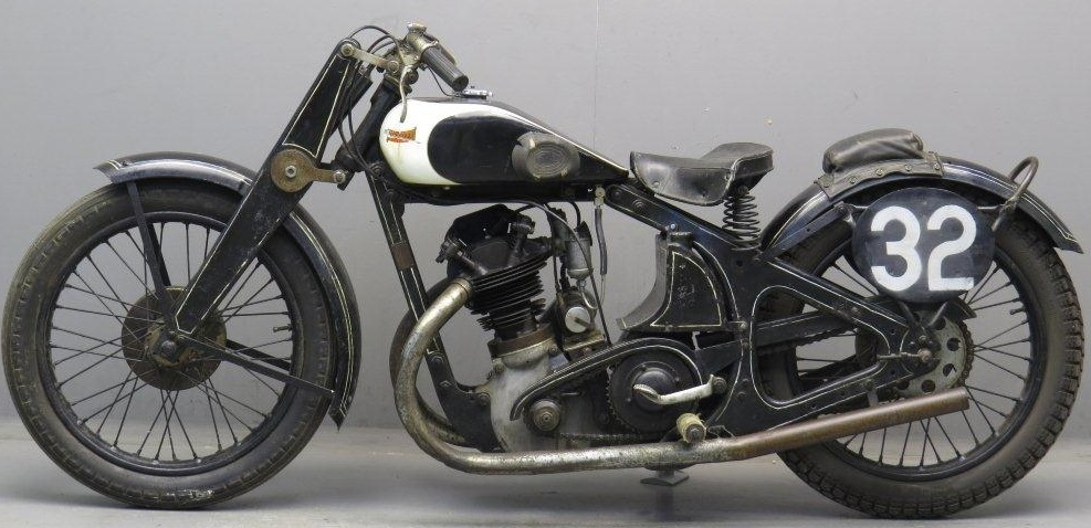 1933 Durandal Rudge-Python 350 cc ohv racers